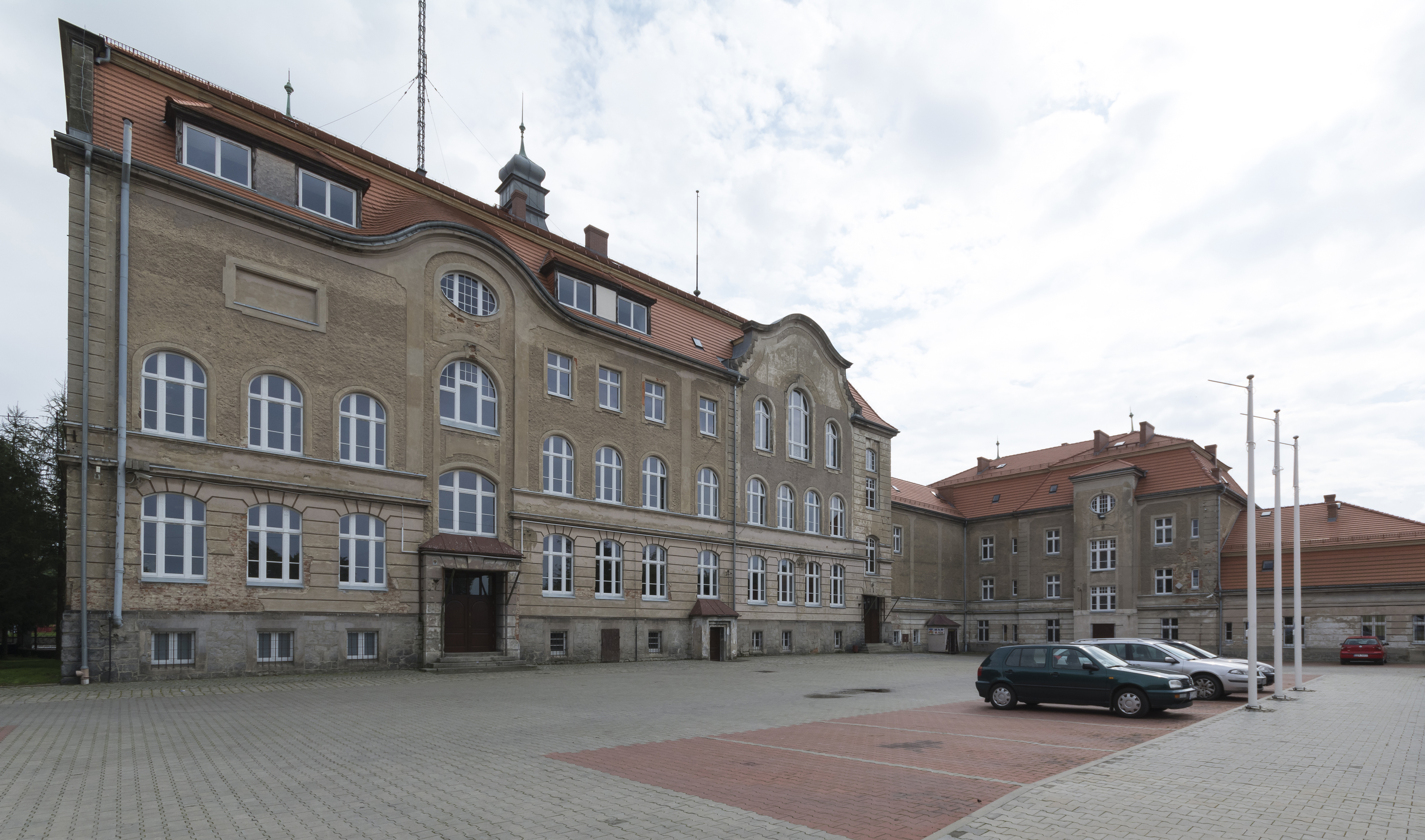 1st school building in Ząbkowice Śląskie